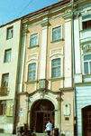 Chamber-of-Szepes-county-building, Košice